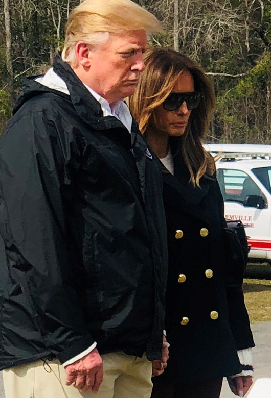 Donald and Melania Trump paying their respects at memorial crosses of the victims of last weekend’s tornadoes here in Alabama.